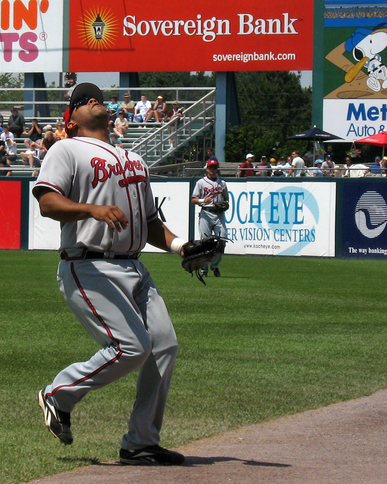 Carlos Méndez, first baseman of the Richmond Braves tracks a foul ball near the left field line in a game against the Pawtucket Red Sox.